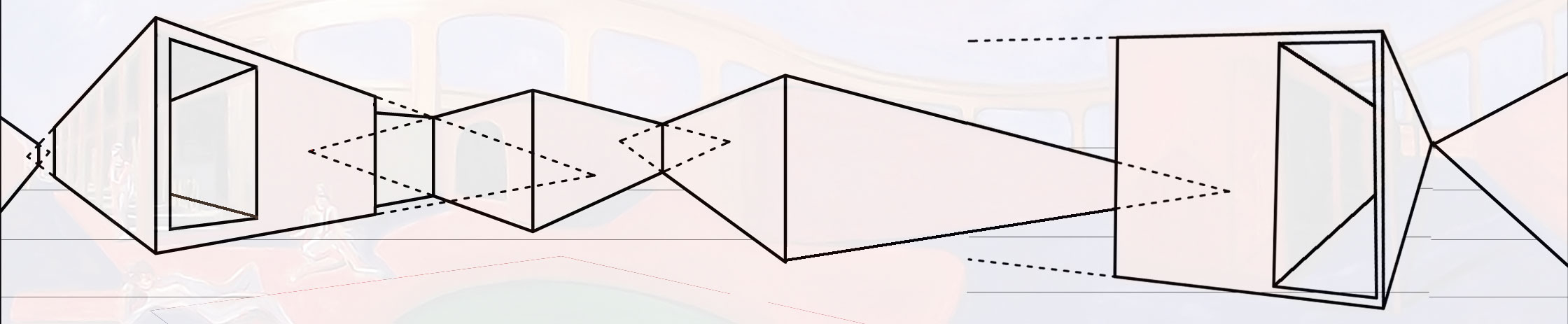 Photograph of a painting with the consent of the author.